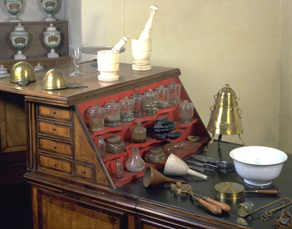 AuthorUnknownDescription